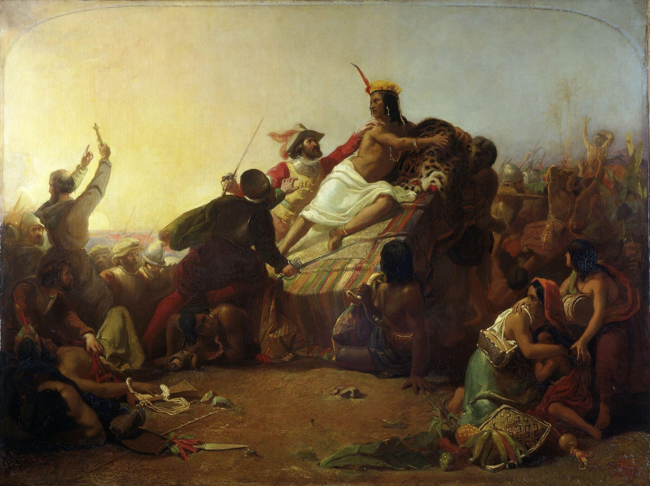 Pizarro seizing the Inca of Peru (1845)